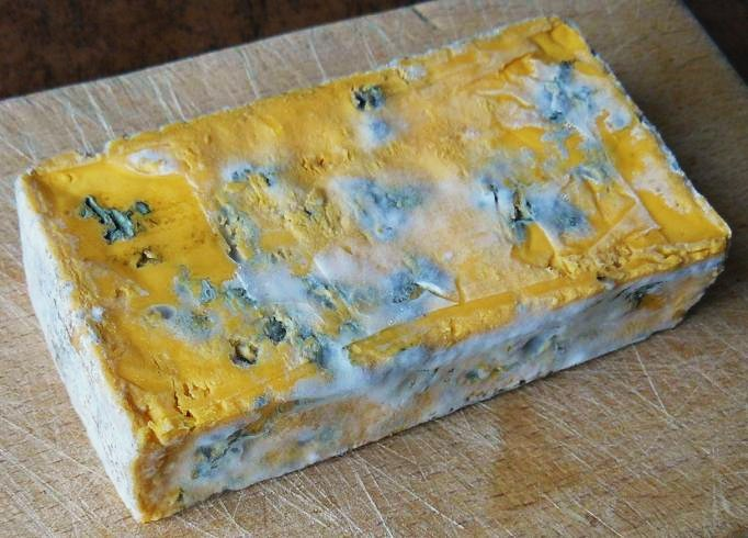 Lazur-cheese Golden (polish, typ Roquefort)